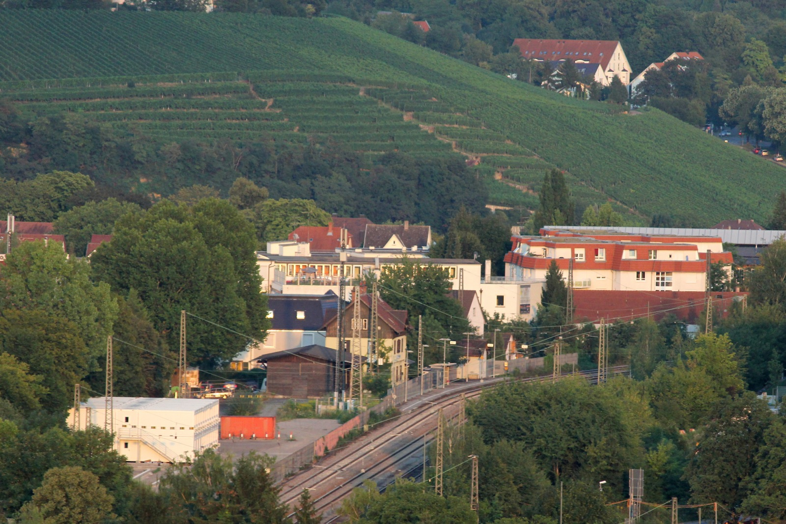 Muenster regional train station in the north of Stuttgart, Germany, seen from Schnarrenberg vineyards.